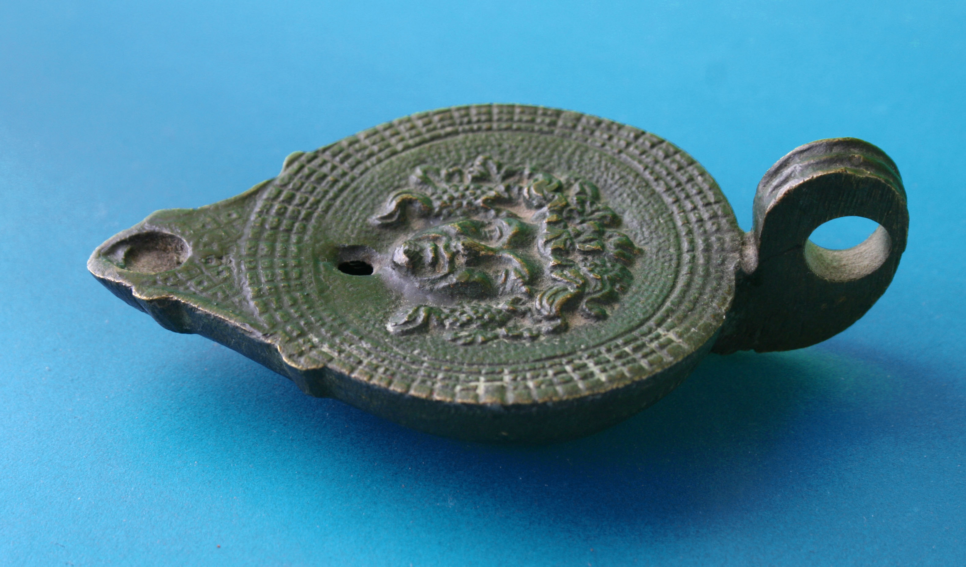 Brass Oil lamp with Bacchus head - 1790s year